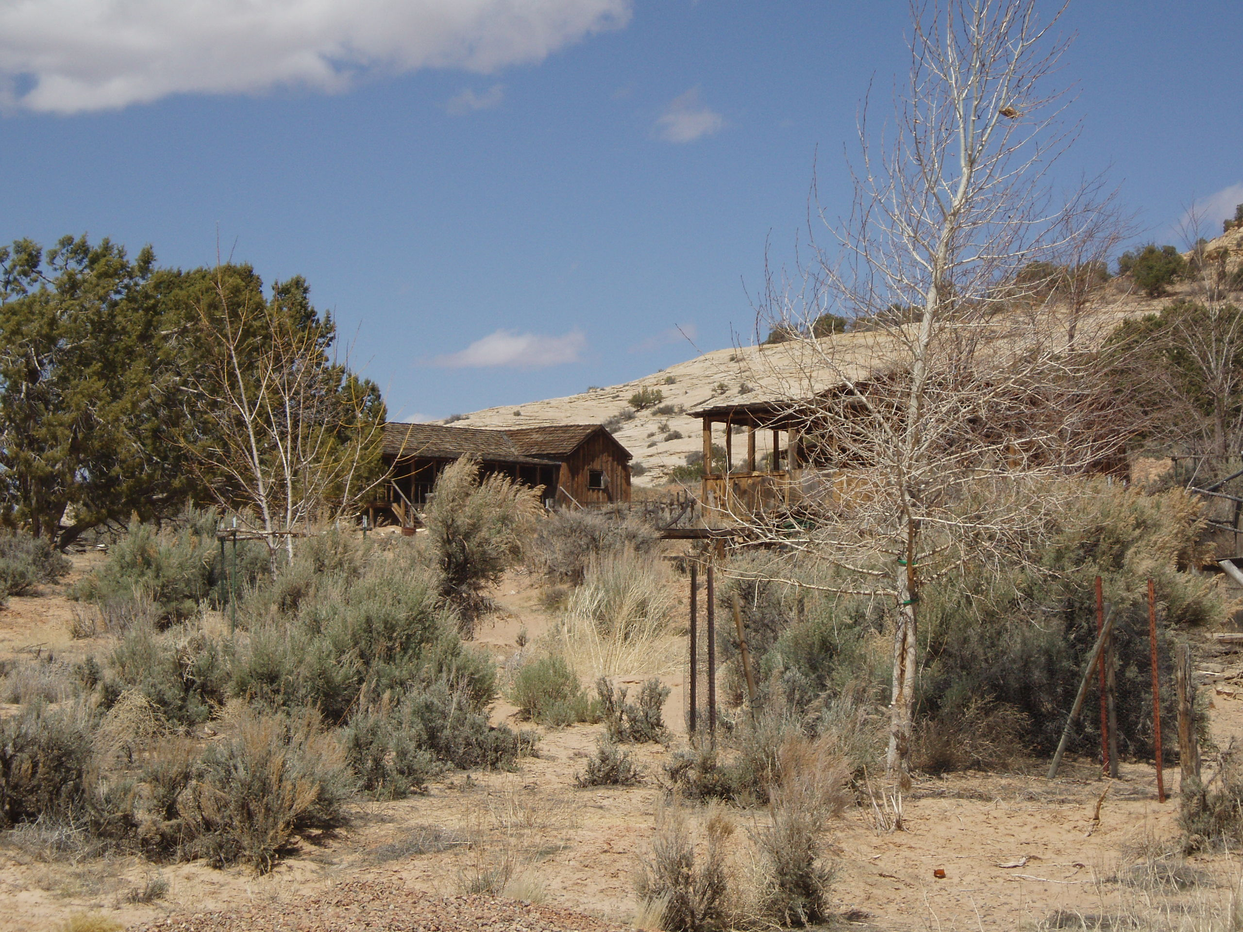 Abandoned buildings at the "Inner Portal" of Home of Truth, a ghost town in southeastern Utah, United States.